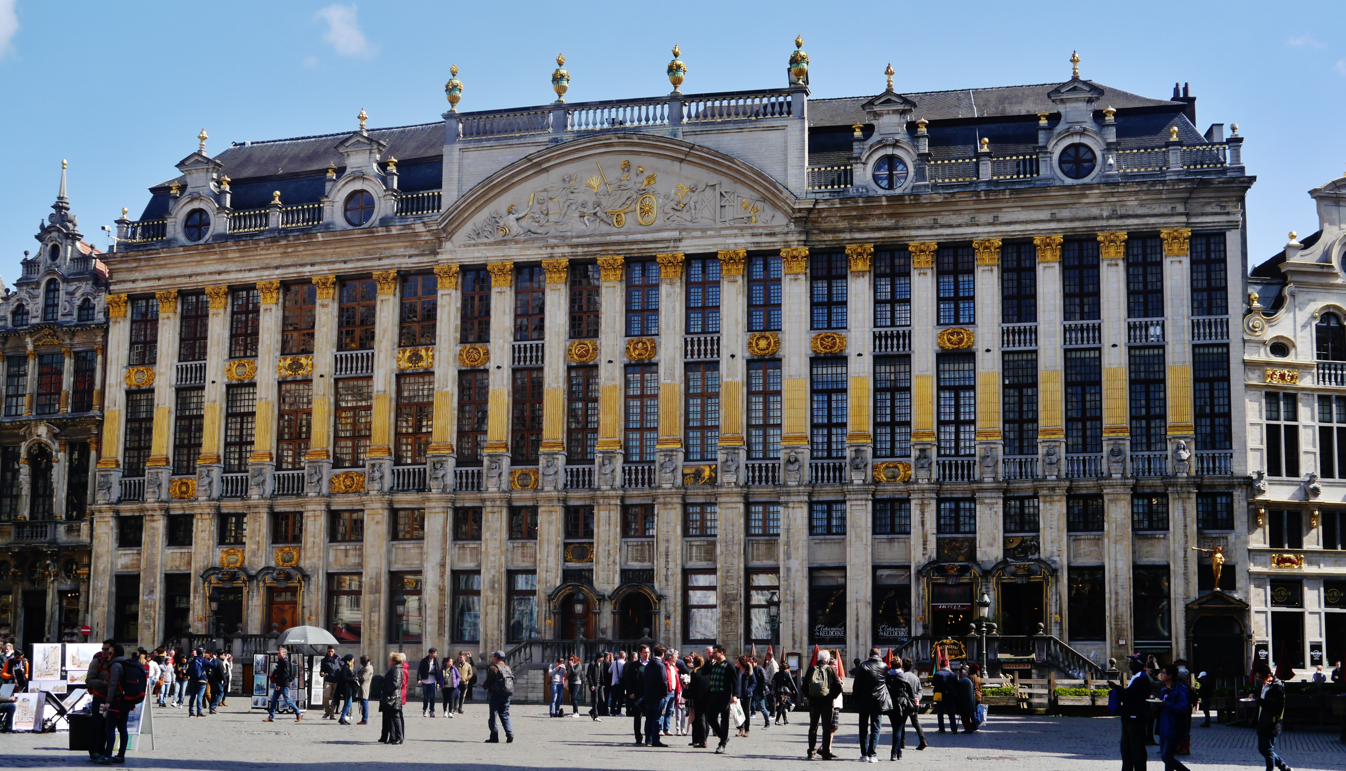 House of the Dukes of Brabant at the Grand Square, Brussels, Region of Brussels, Belgium